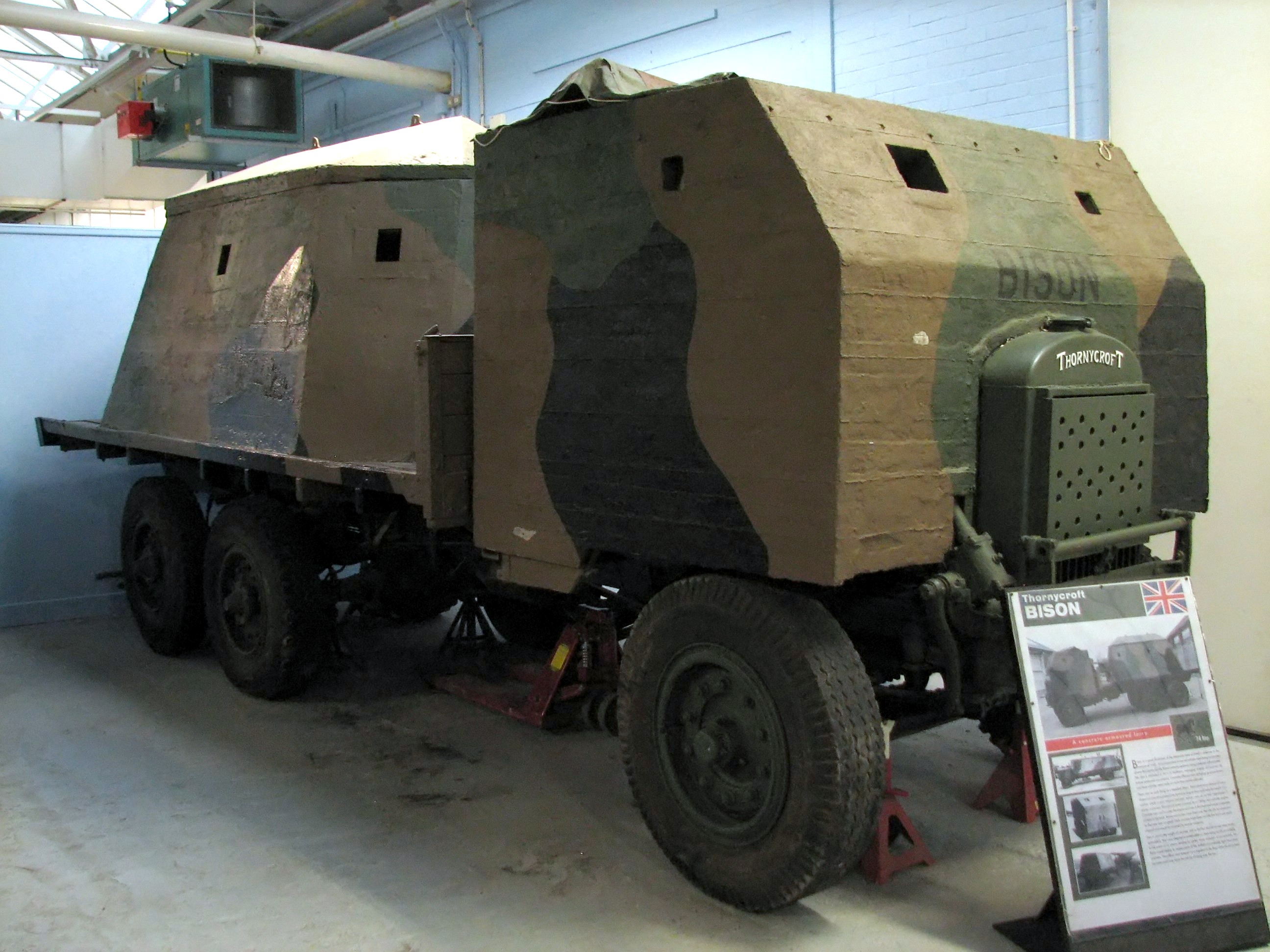 British Thornycroft Bison armoured pillbox at Bovington Tank Museum